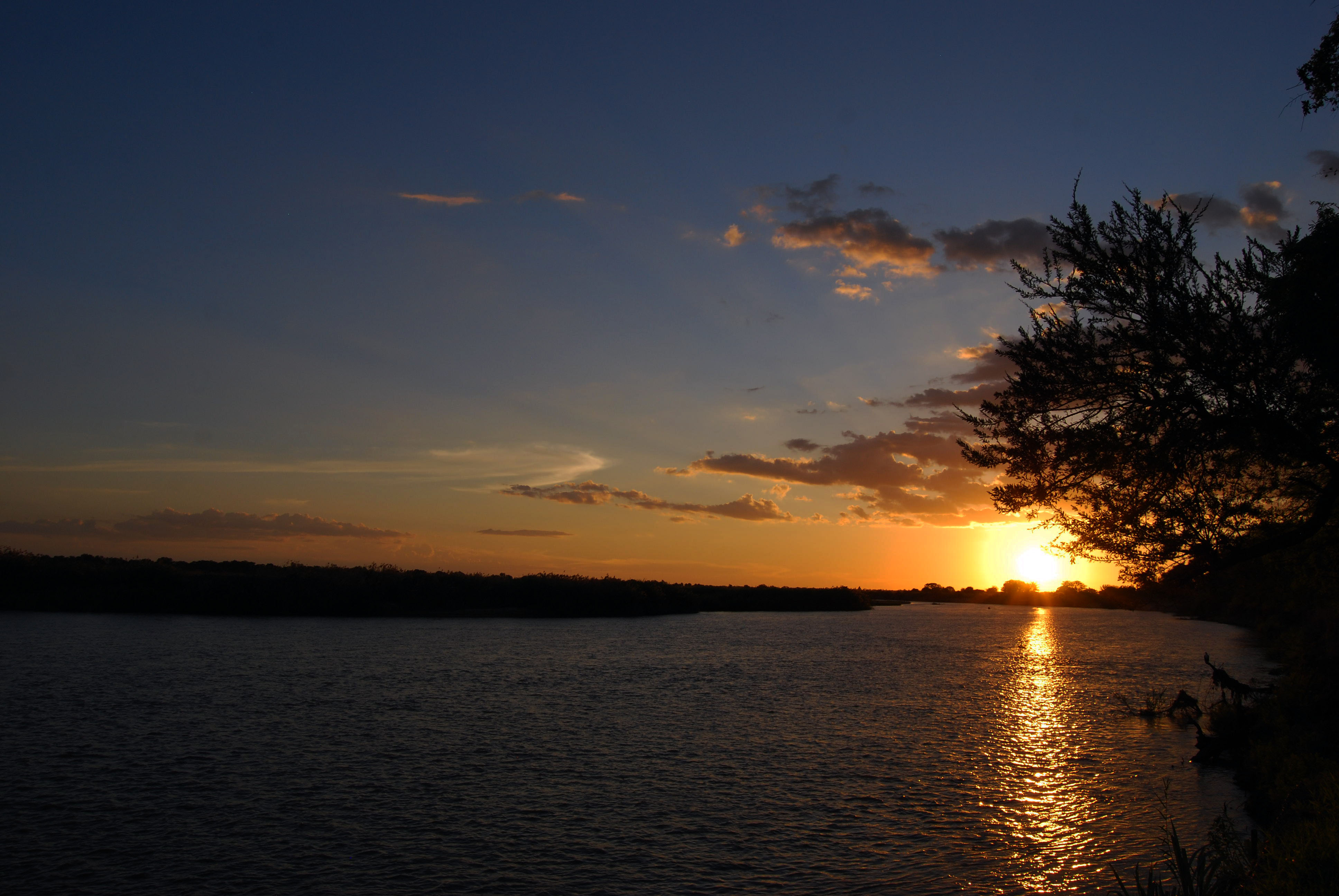 The sun slips below the horizon on the Rufiji River in Selous Game Reserve, Tanzania